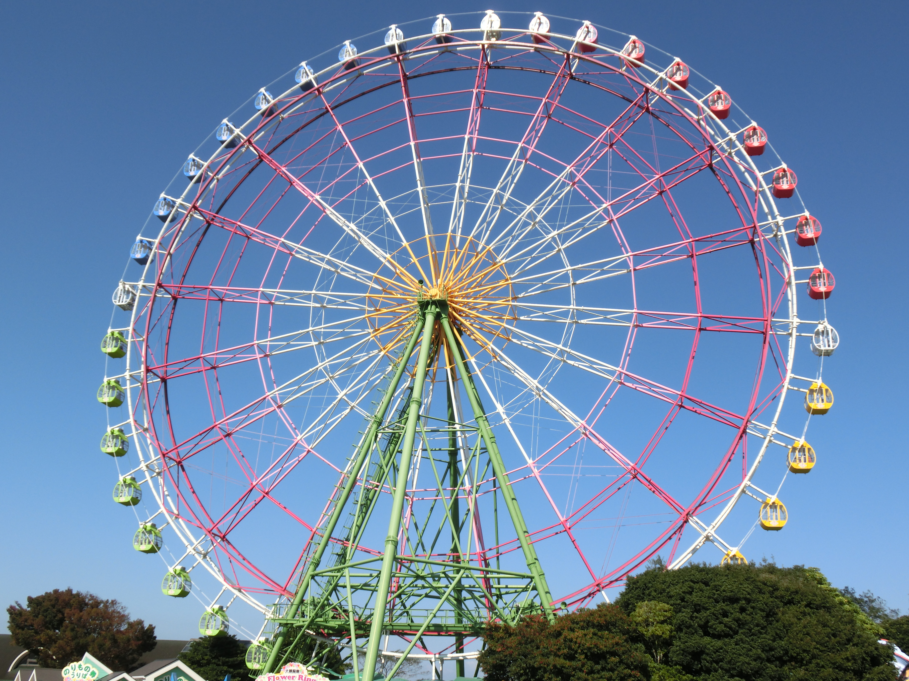 Giant Ferris Wheel (Hitachi Seaside Park)